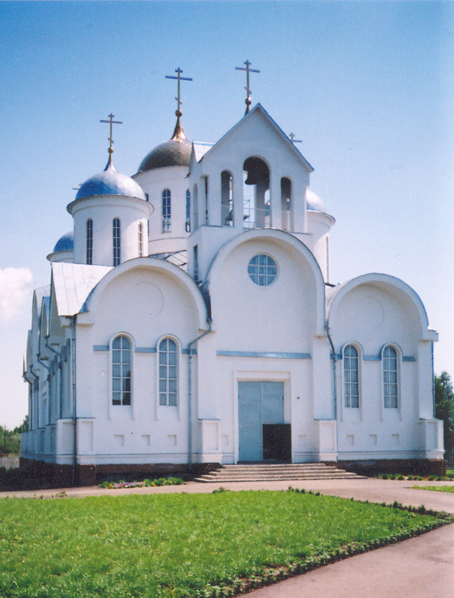 Incarnation Church, Zemetchino, Penza obl., Russia